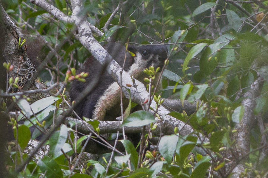 The species Black Giant Squirrel had been photographed from Mahananda Wildlife Sanctuary in West Bengal, India on 09.05.2016.